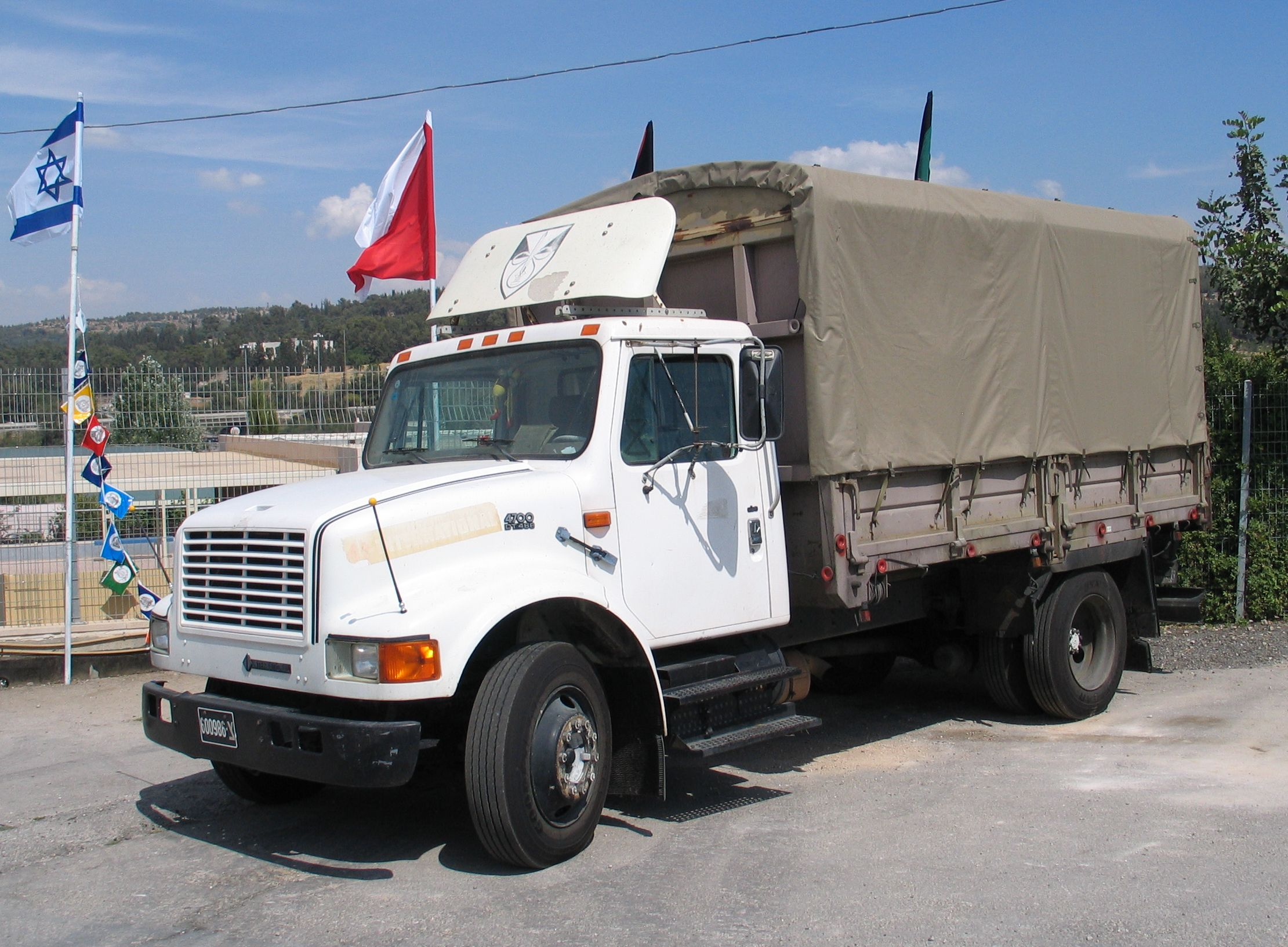 Israel's 60th Independence Day exhibition in Yad la-Shiryon Museum, Israel.